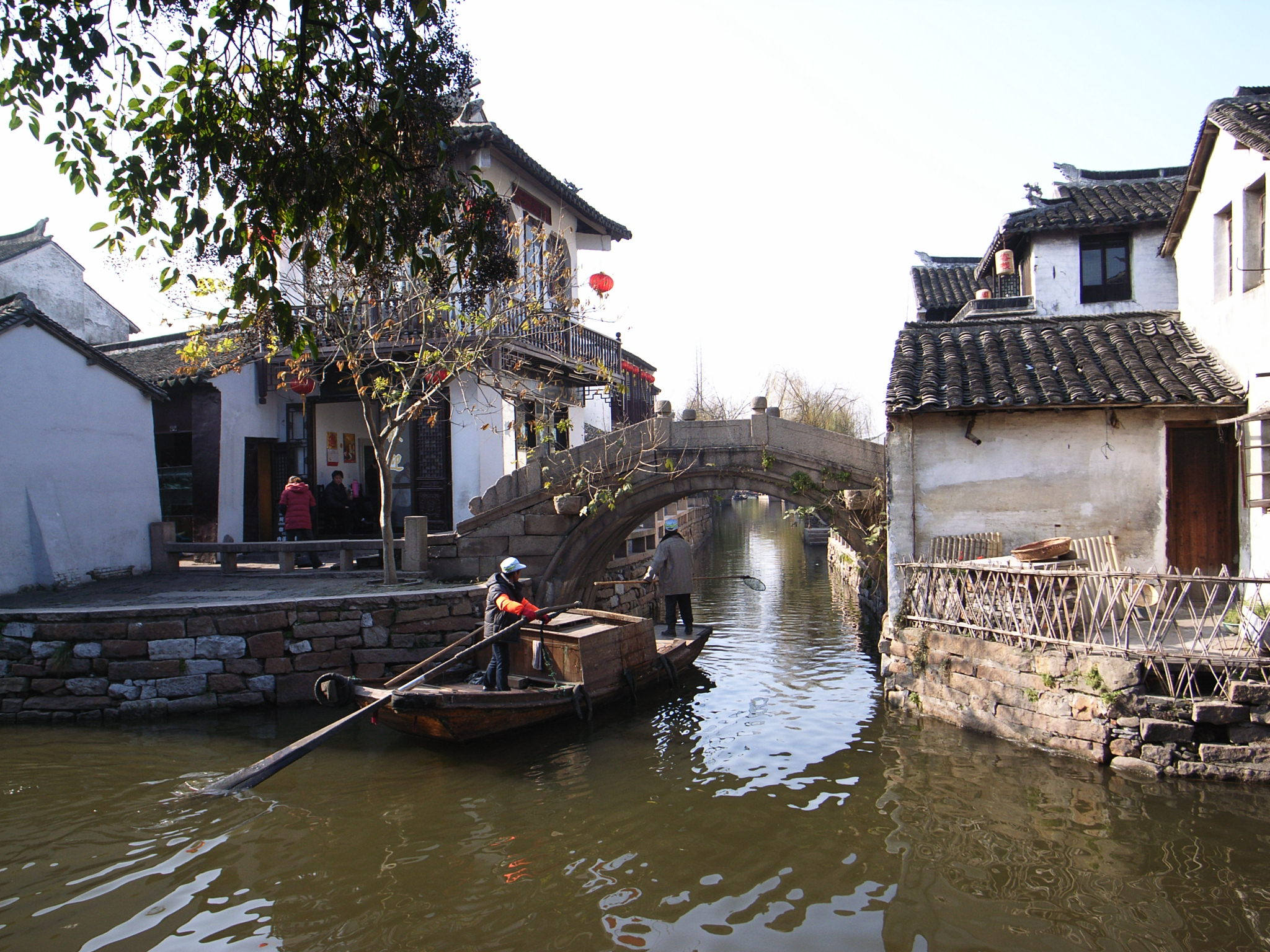 Zhouzhuang, a famous historic town in China.